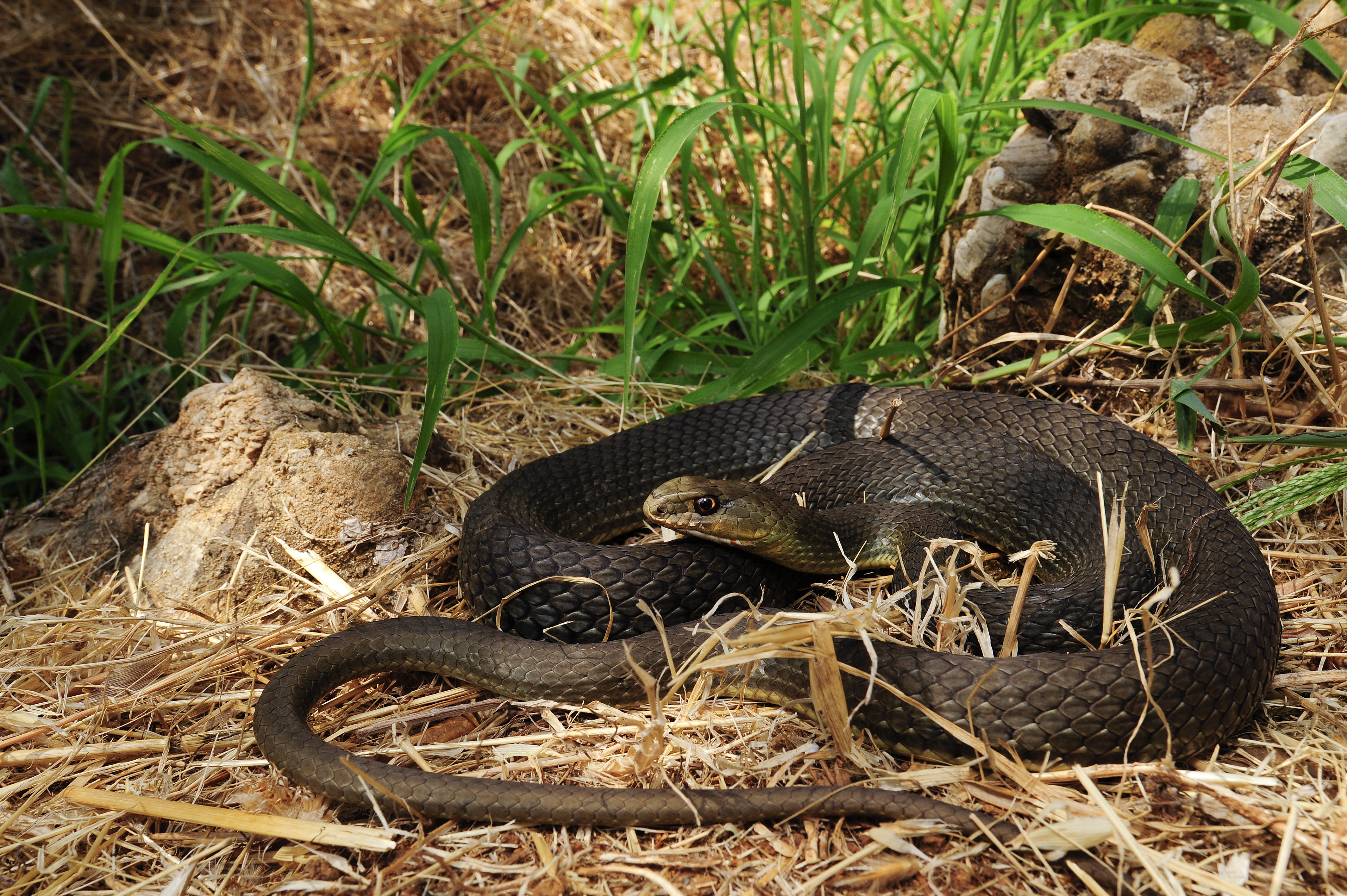 Malpolon insignitus male